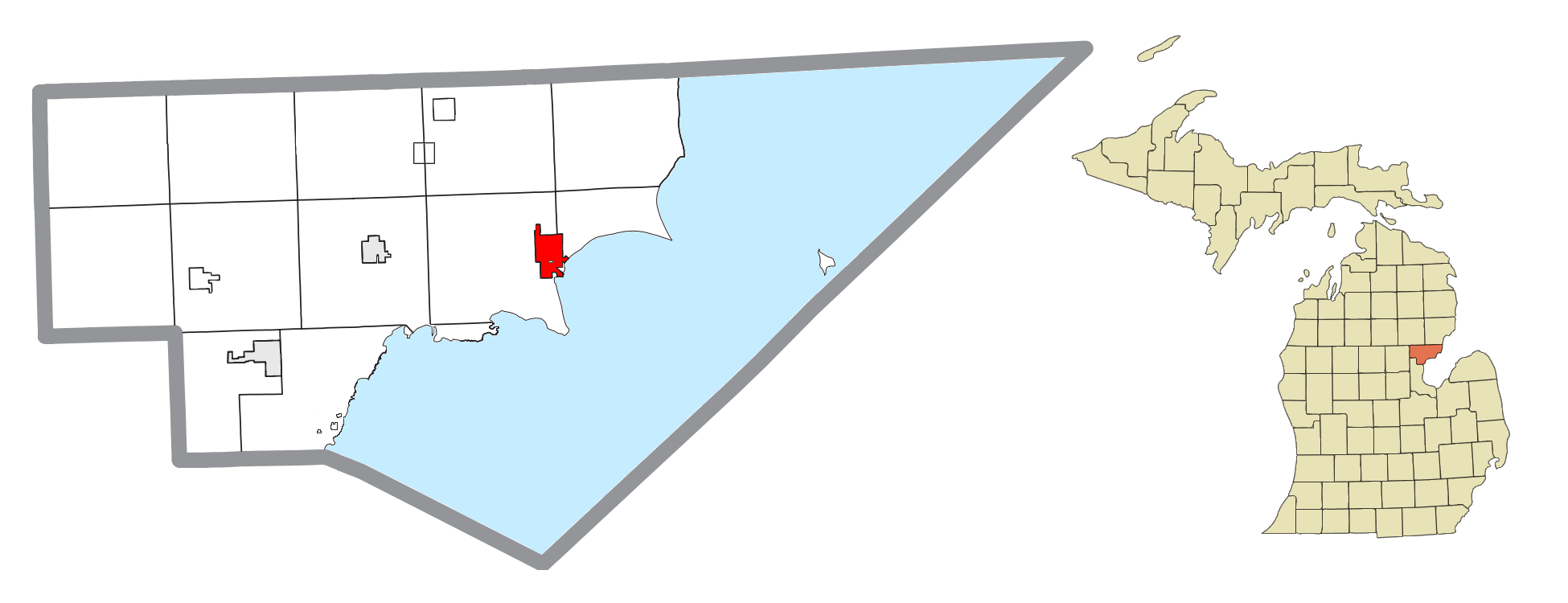 Au Gres, MI